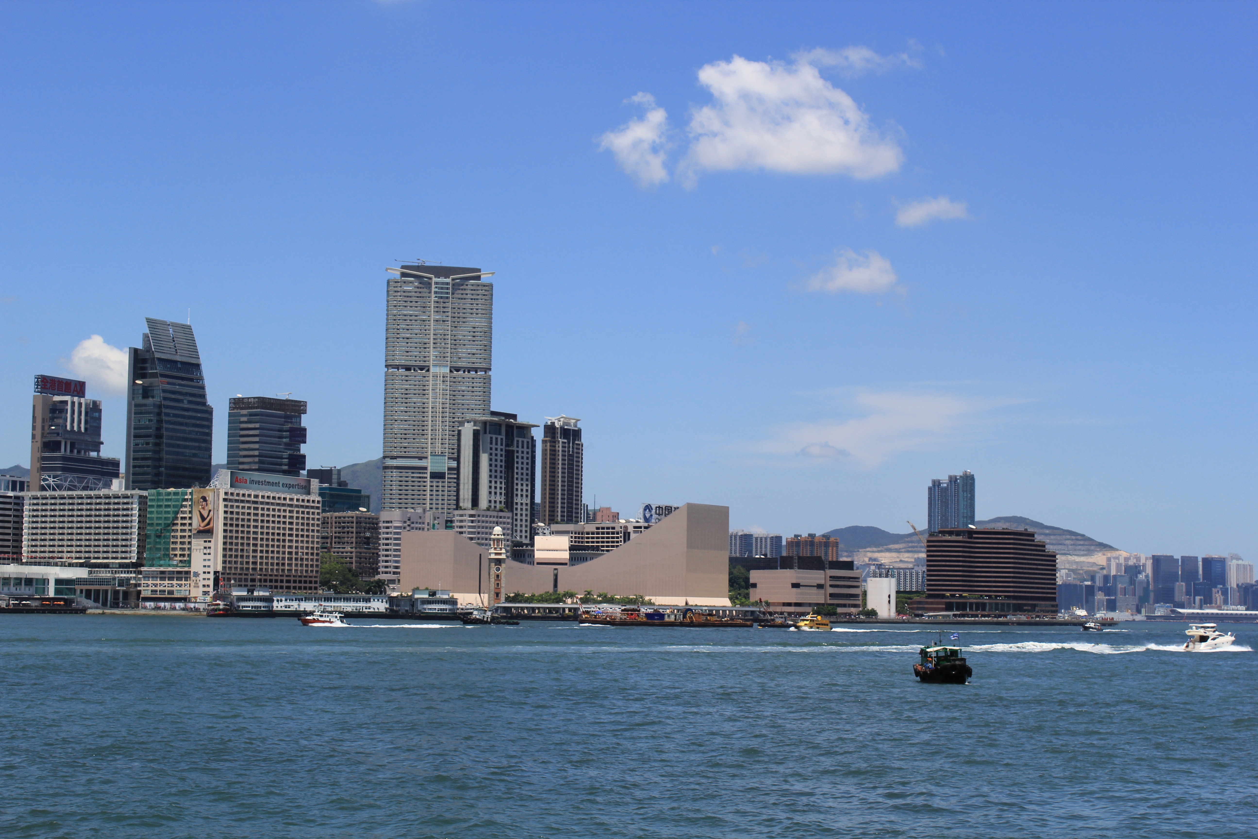 View from Star Ferry's Harbour Tour